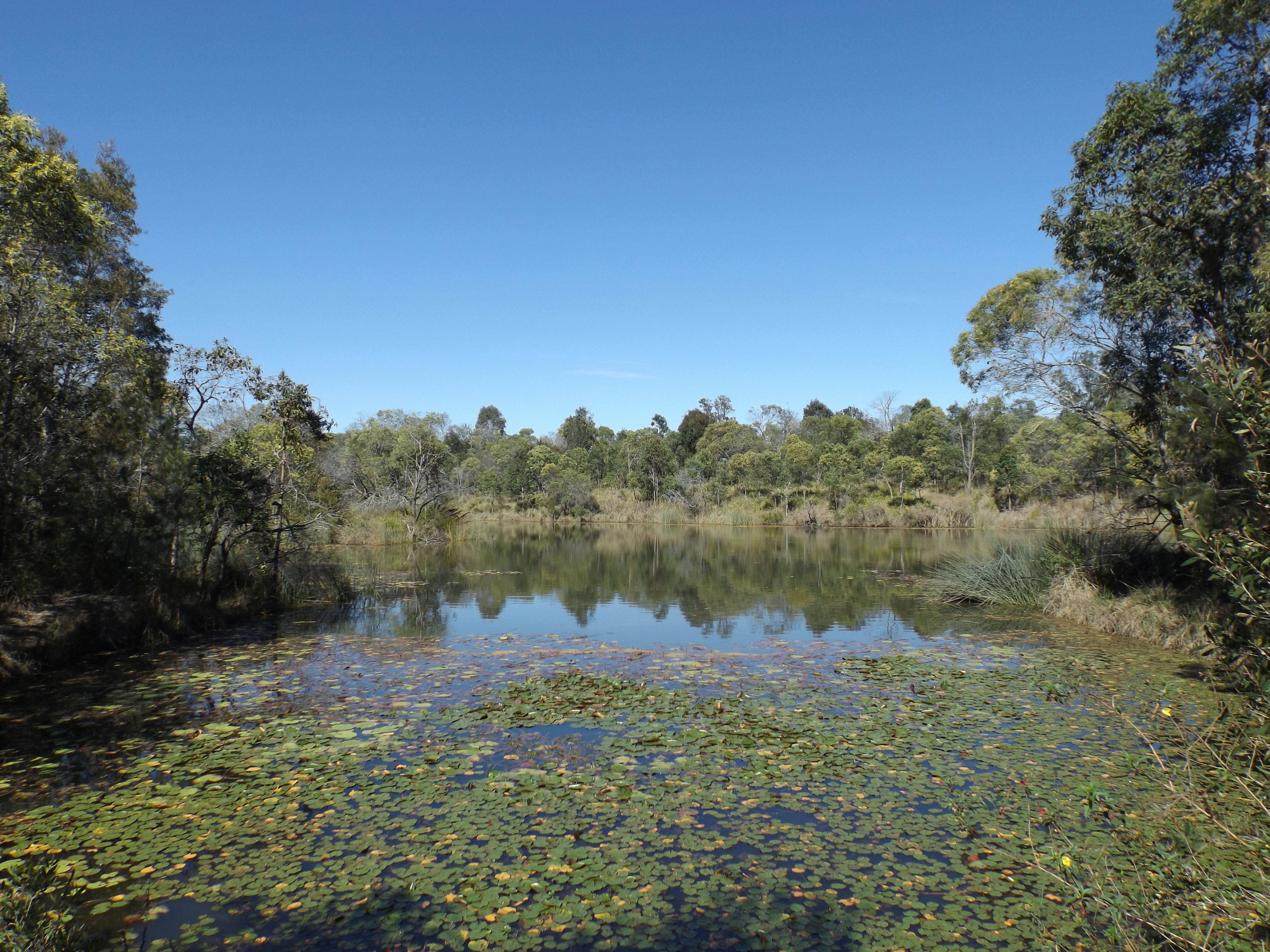 Photo of a billabong at Berrinba Wetlands, Berrinba, Logan City, Queensland, Australia.